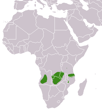 Angolan Genet (Genetta angolensis) range